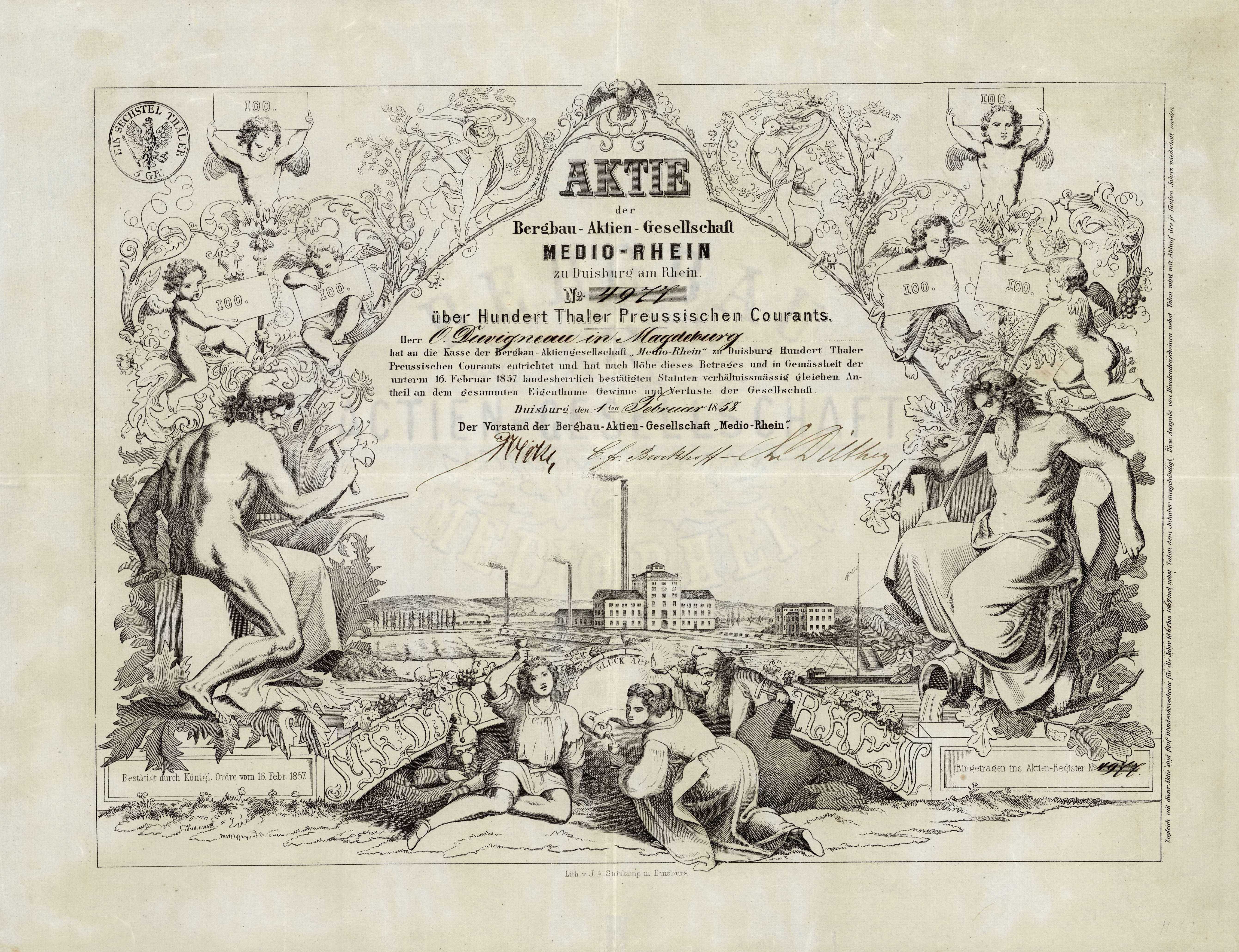 Share of the Bergbau-AG Medio-Rhein, issued 1. February 1858